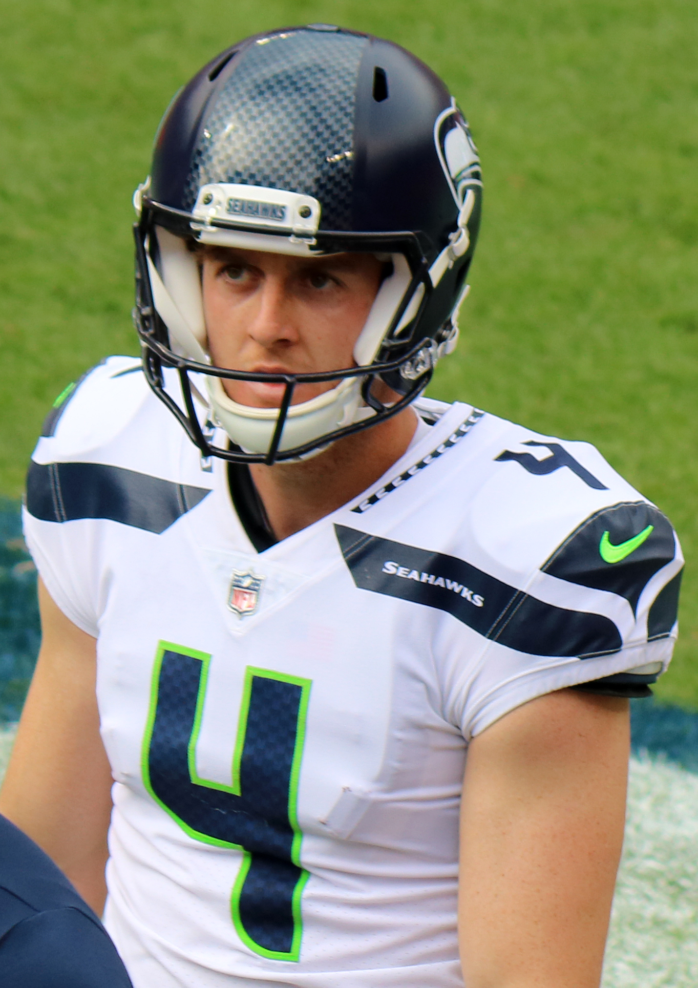 Michael Dickson, a National Football League player.